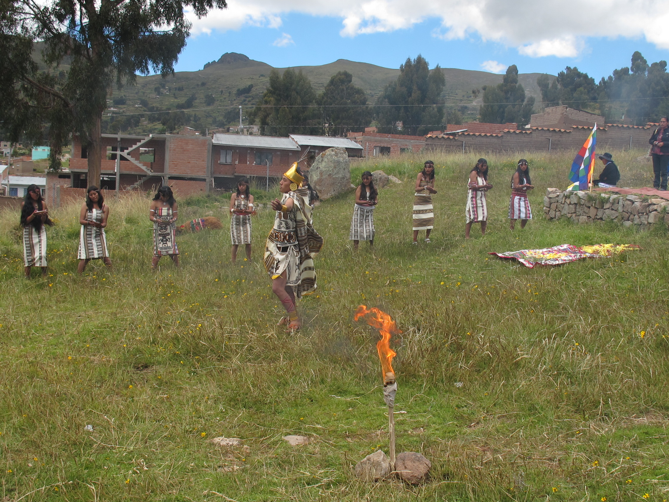 Photos of a traditional Aymara ceremony in Copacabana, on the border of Lake Titicaca in Bolivia.